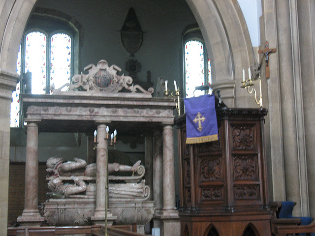 All Saints' parish church, Turvey, Bedfordshire: monument to John, 2nd Baron Mordaunt (1508–1571) and his wife